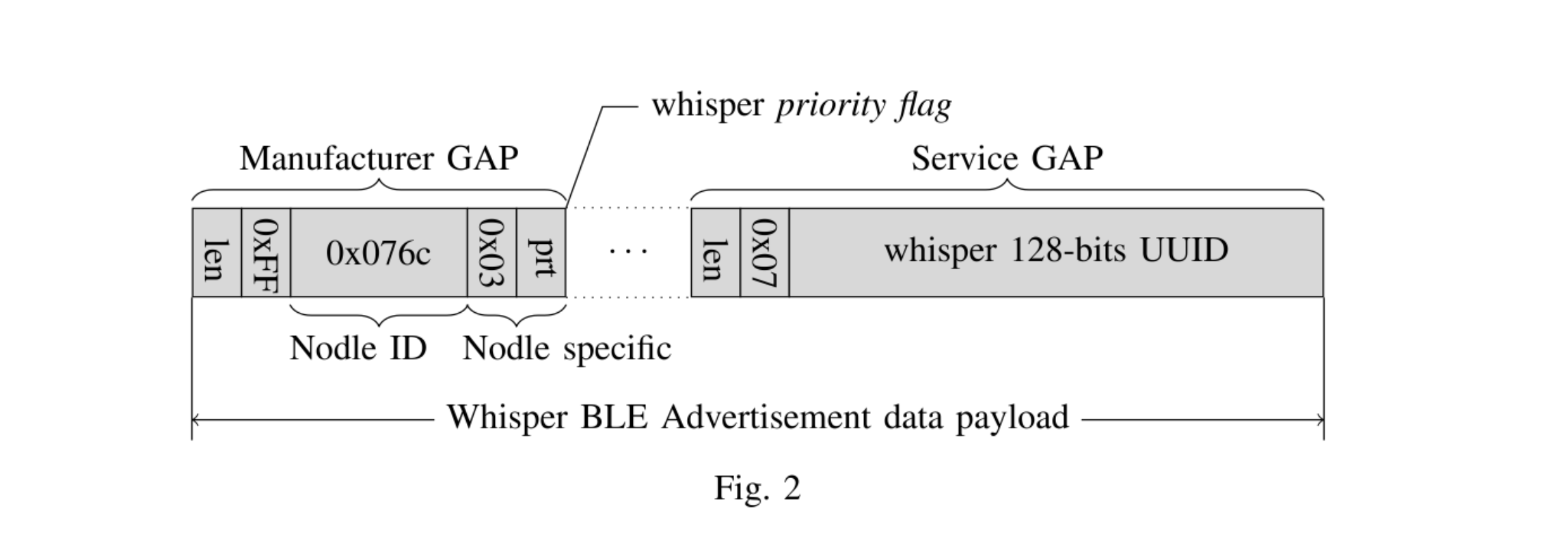 Packet format of the Whisper bluetooth based contact tracing tracing protocol. Taken from the White paper.